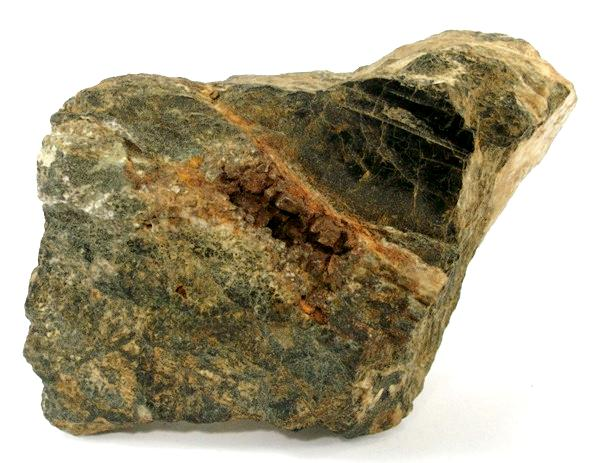 Yttrotantalite-(Y) Locality: Ytterby, Resarö, Vaxholm, Uppland, Sweden (Locality at ) Size: 6.9 x 5.2 x 3.4 cm. Yttrotantalite is a rare, rare earth oxide rich in yttrium and is similar to tantalite. This old-time specimen, with waxy lustre is from the Type Locality - the Ytterby pegmatite in Sweden. The brick-red cubes filling the little vug are pyrite crystals. About 10 rare elements were discovered here. Ex. Mullane Collection and comes with a faded, old label. Classic, old material.